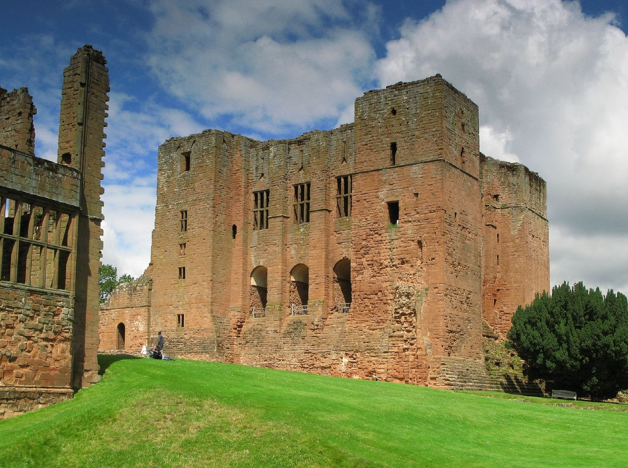 Kenilworth Castle in Warwickshire is a very imposing ruin with a very colourful history,in which Simon de Montfort,Henry III,John of Gaunt and Robert Dudley,Earl of Leicester,had parts.